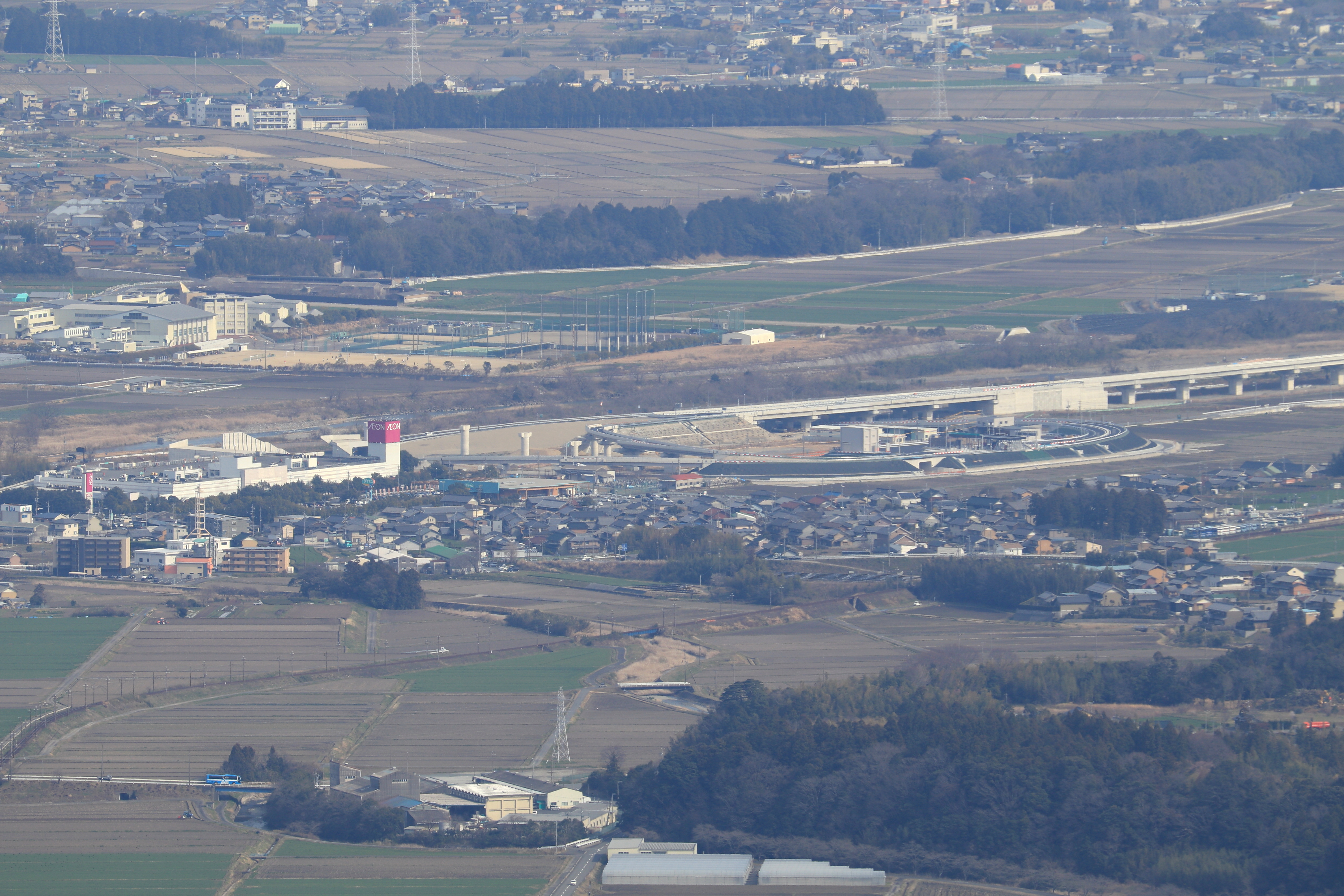 Daian Interchange on Tōkai-Kanjō Expressway seen from Mount Fujiwara, Suzuka Mountains in Inabe, Mie Prefecture, Japan. Canon EOS Kiss X9